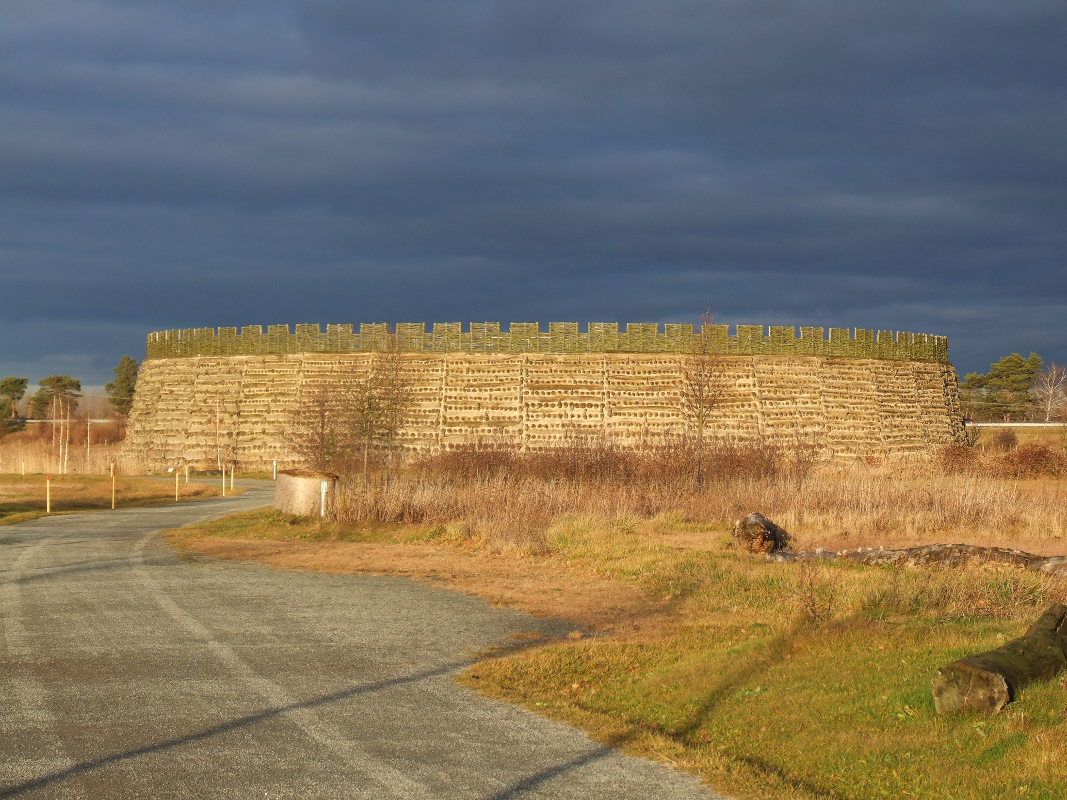 Slavic refuge castle Raddusch (Raduš), Germany